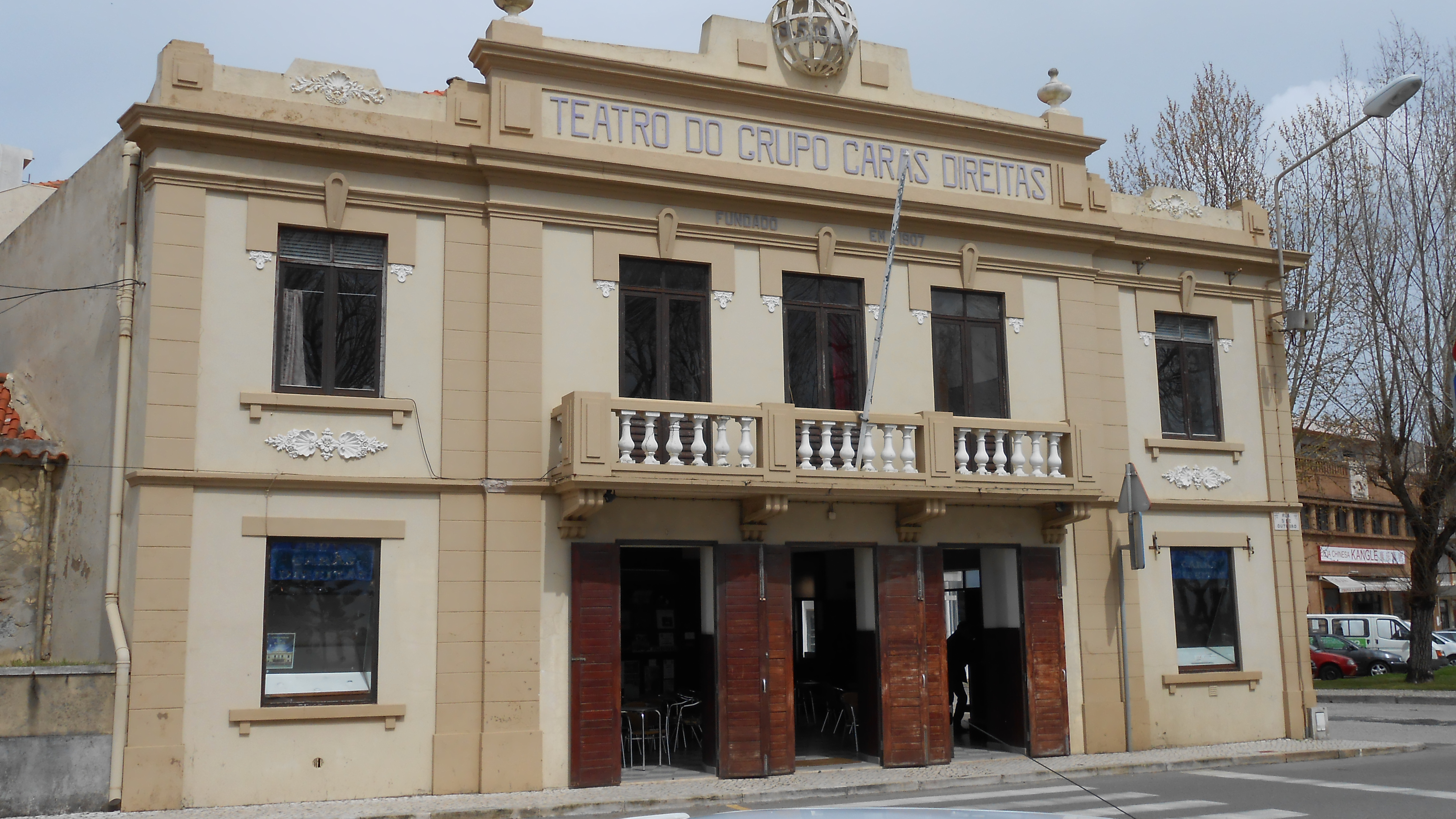 "Teatro do Grupo Caras Direitas" theater in Buarcos